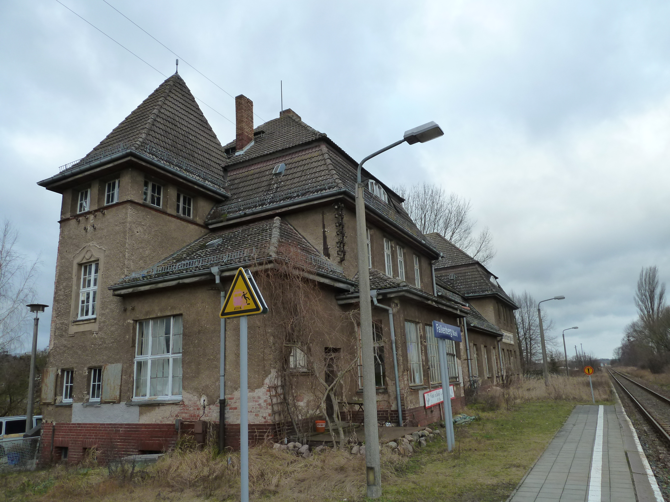 Falkenberg (Mark) train station, "new" station building.